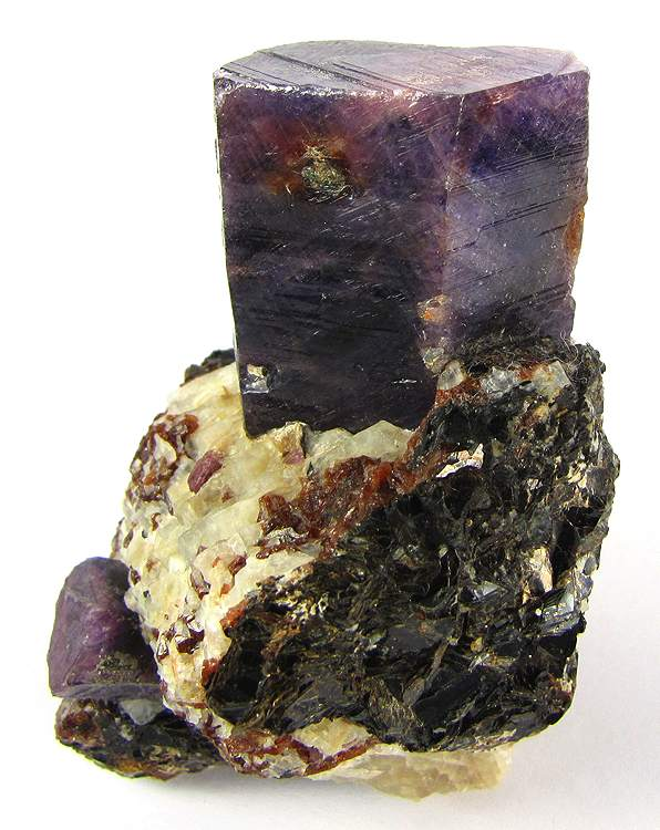 Corundum (Var.: Sapphire) Locality: Zazafotsy Quarry (Amboarohy), Zazafotsy Commune, Ihosy District, Horombe Region, Fianarantsoa Province, Madagascar (Locality at ) Size: 6.8 x 4.5 x 4.4 cm. For both size range and overall quality, this is one of the best examples I have had of the recently found bi-colored Corundums from Madagascar. I obtained it in 2006, and have not seen better come out since that time, with crystals of such robust size (2.6 x 2.5 x 1.3 cm). It features a single crystal perched castle-like on matrix. That crystal is complete-all-around and terminated all around except a slight bit of ingrown matrix on one narrow edge; and remarkably not repaired. They go varying shades of red/purple and even to blue-purple depending on which lighting source you use to look at them. The effect is not subtle, either – it’s pretty obvious. These corundums are technically called sapphires on the market but to me, I cannot decide which to label them as, because under strong halogen they look as much like rubies as anything. This piece has superior color change, red/maroon in halogen and purple-blue in sunlight and fluorescent lighting.